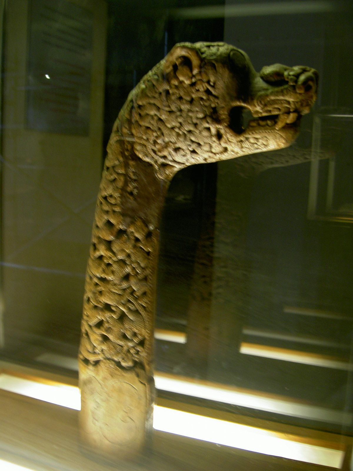 This is what is known as the "figure head" from a viking ship. It was an ornate item located on the bow (front) of the ship.